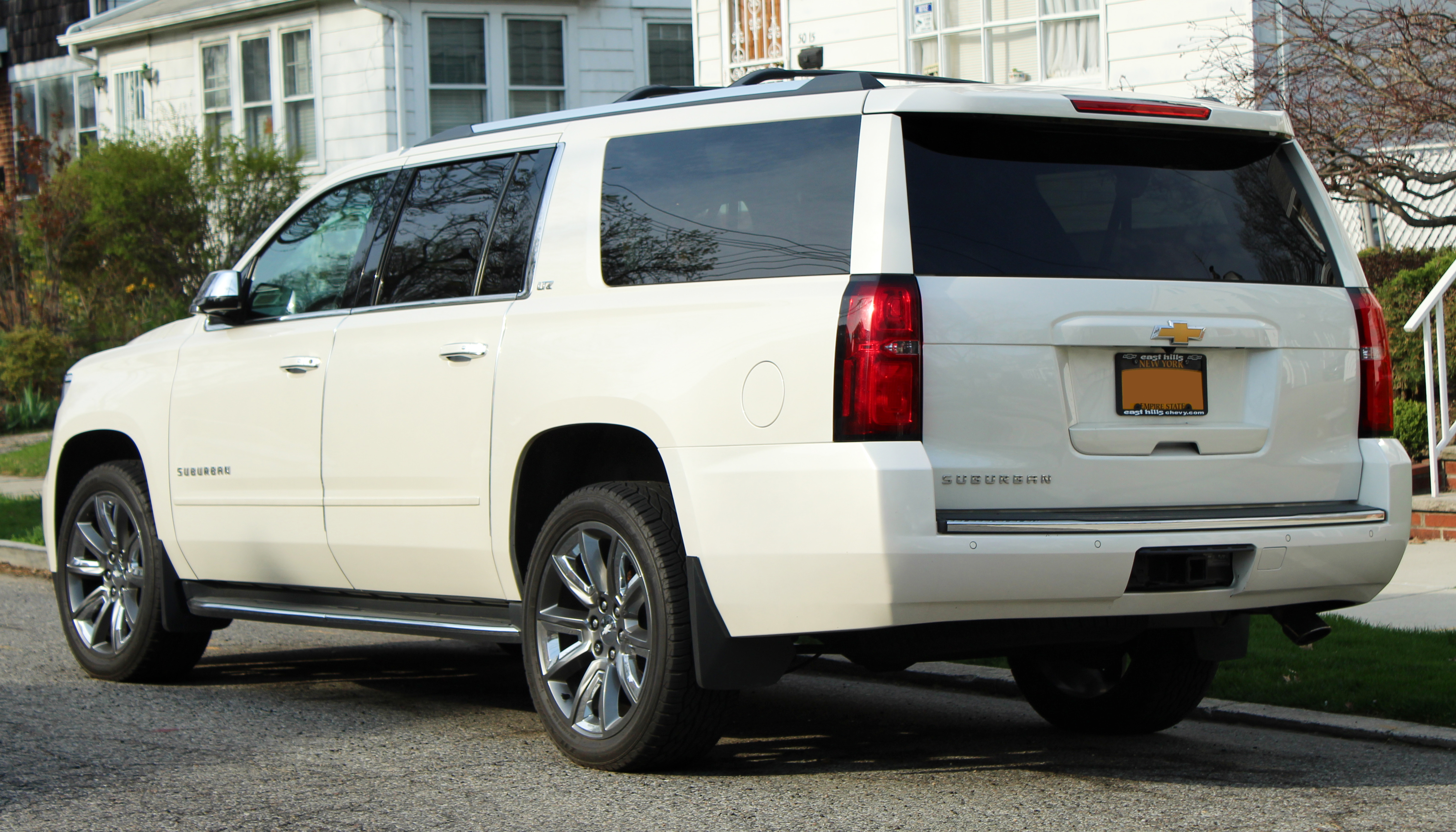 A 2015 Chevrolet Suburban photographed in Queens, New York, USA